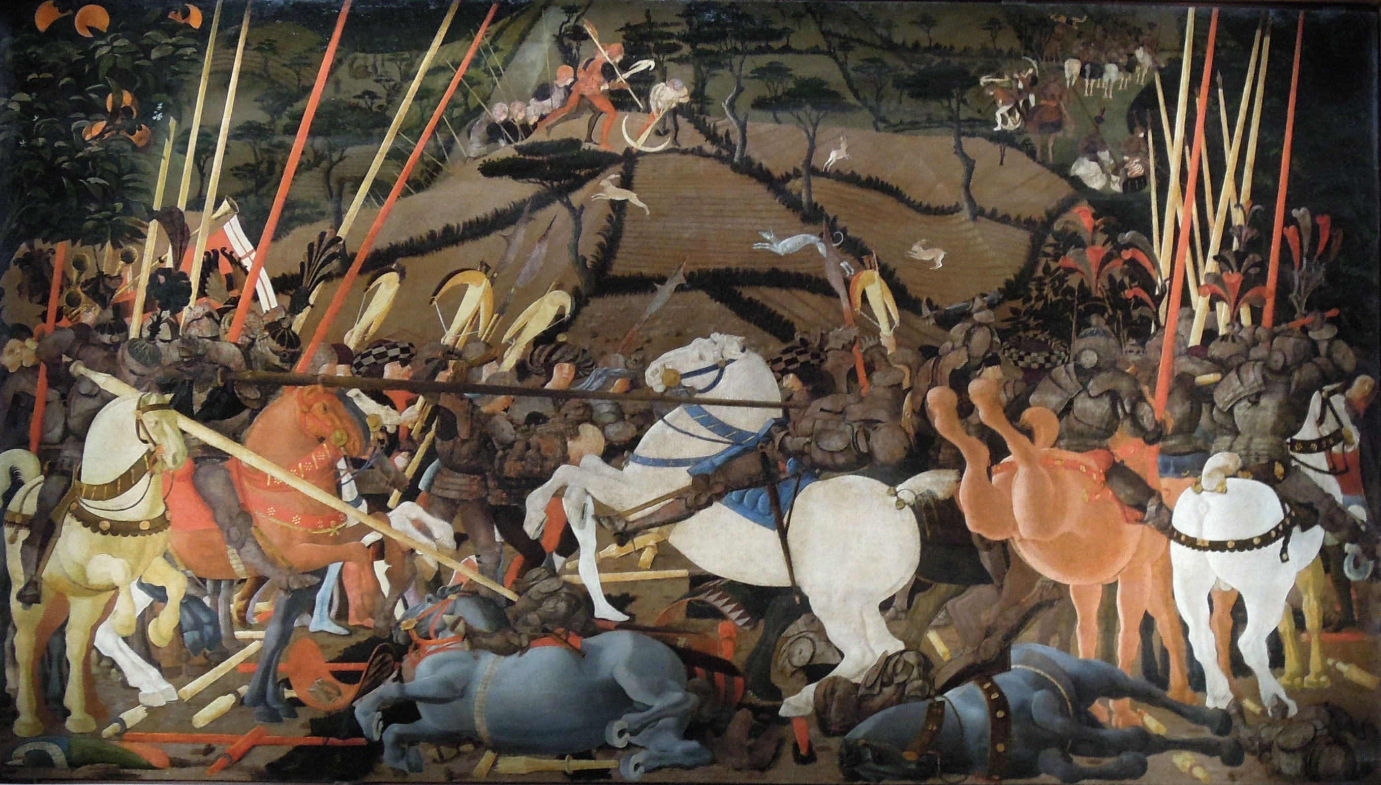 after the 2012 restoration